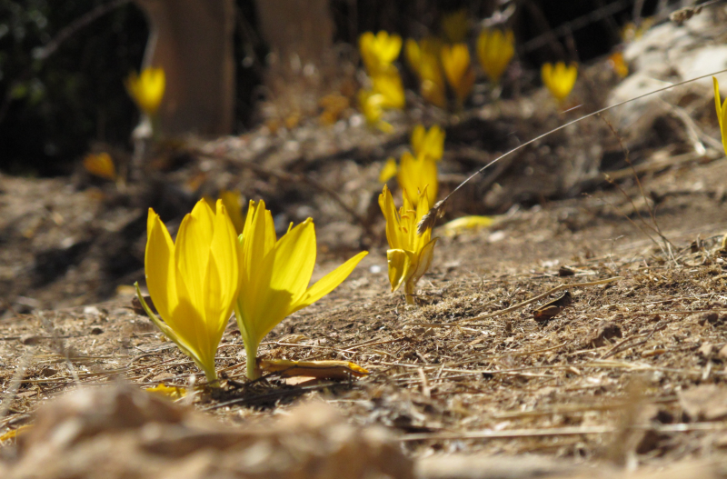 Sternbergia (Sternbergia clusiana) in bloom on Mt Meron, Israel